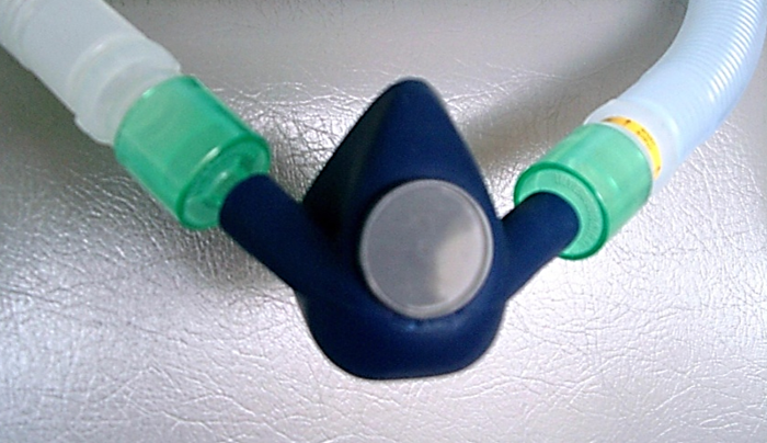 Nasal hood used in inhalation sedation attached to gas delivery hoses